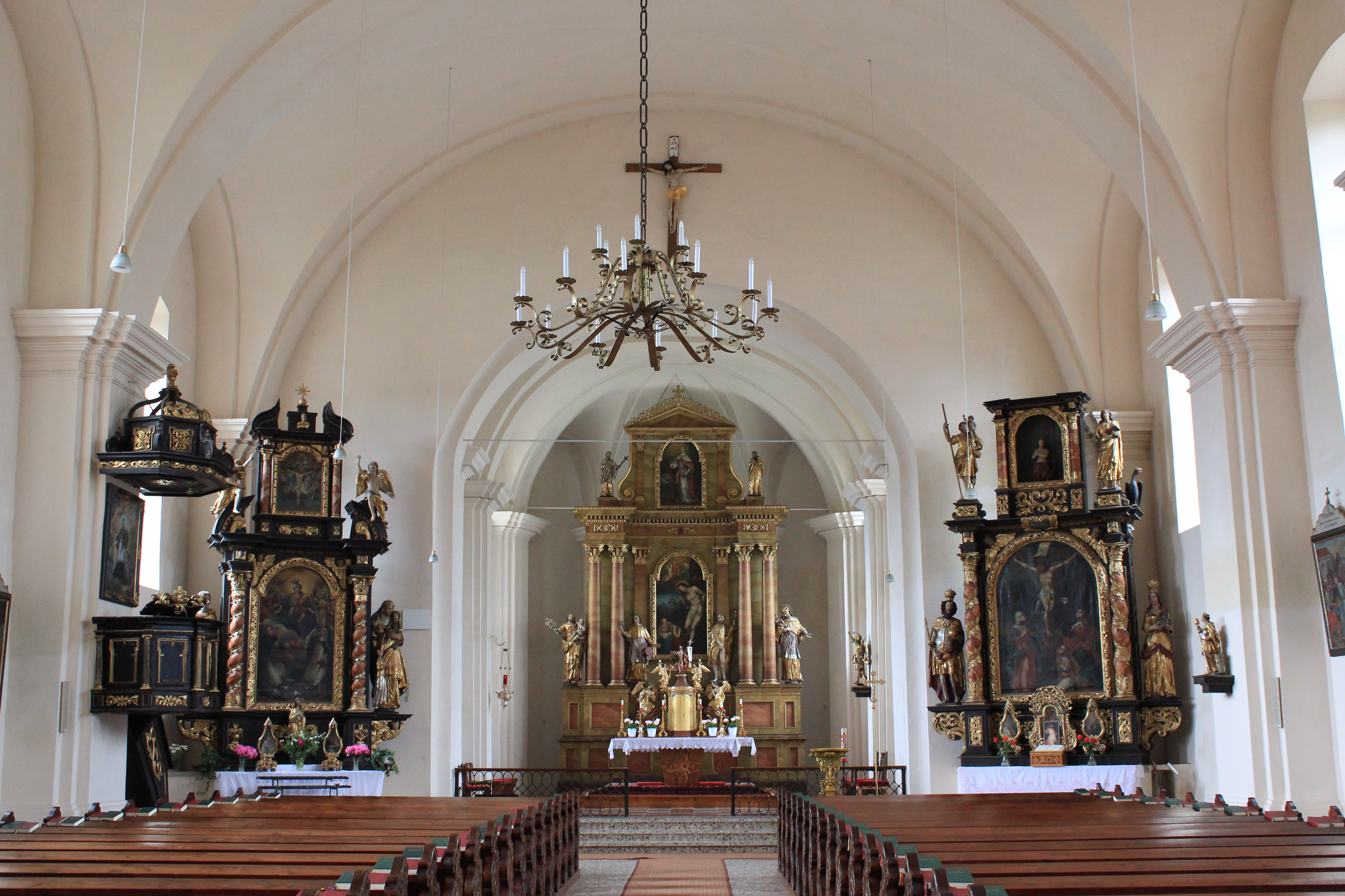 Subsidiary church St. Kunigund in Bad Sankt Leonhard